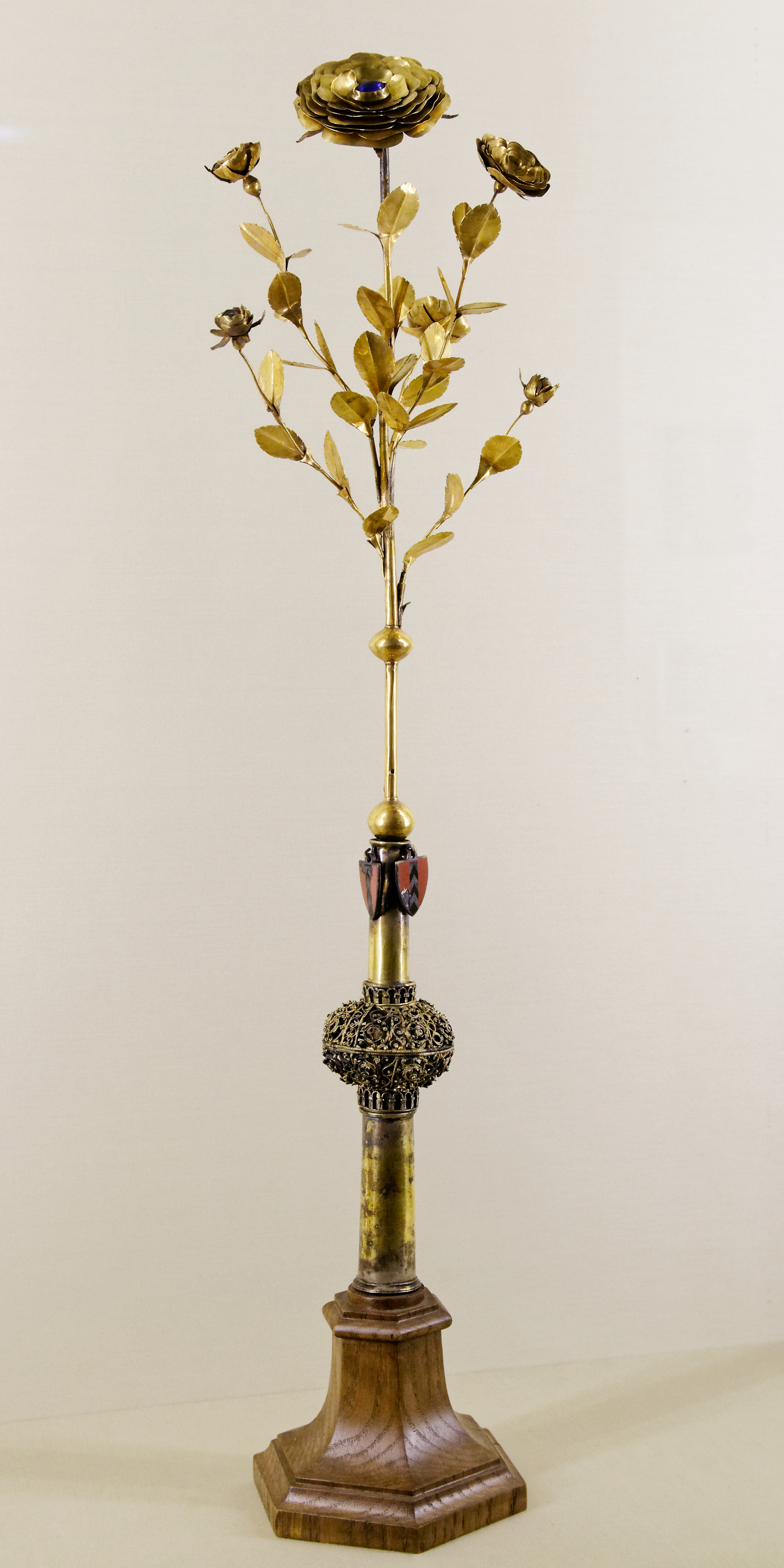 Golden Rose commissioned by Pope John XXII (1316–1334) and given to Rudolph III of Nidau. Rose: Avignon, 1330; knot with filigree: third quarter of the 14th century; base and enameled coat of arms: after 1330. Gold, gilt silver, colored glass, champlevé enameled on silver. From the Treasury of the Basel Cathedral.